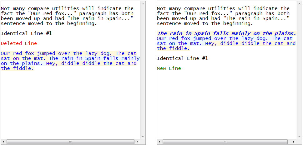 is a free online tool for comparing blocks of plain text. This screenshot shows how moved up text is colored blue and re-ordered paragraph text has its background color changed to light blue and yellow.